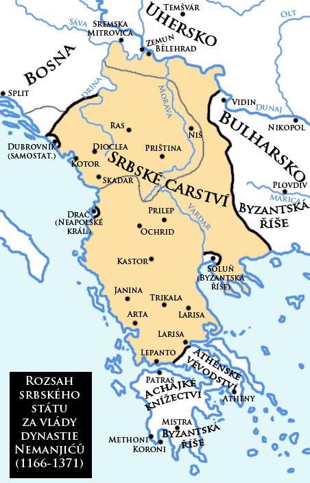 Serbian empire and its neighboring states, 1166-1355. Focused on reign of Stephen Uroš IV Dušan of Serbia